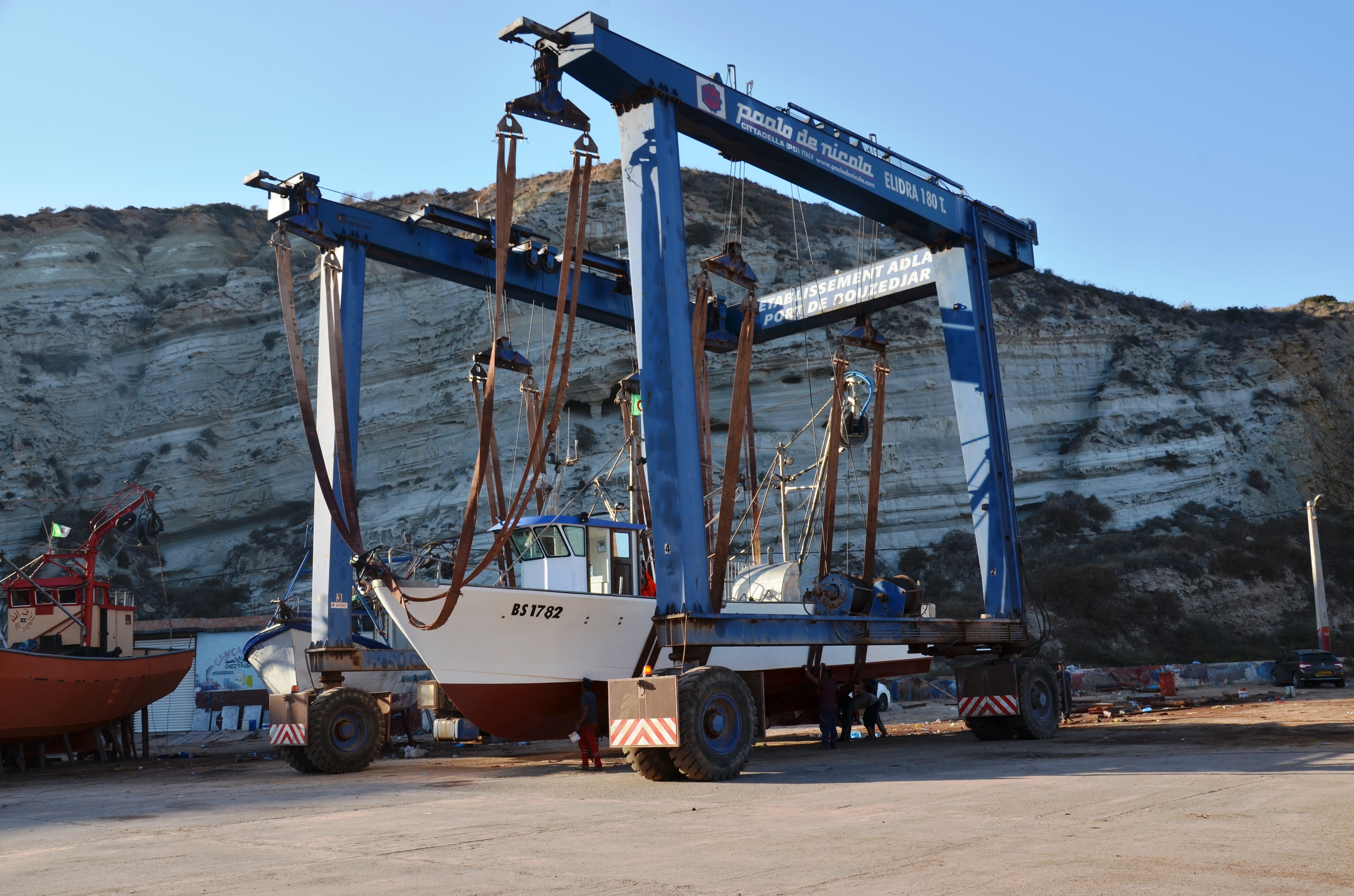 This is an image of "African people at work" from Algeria